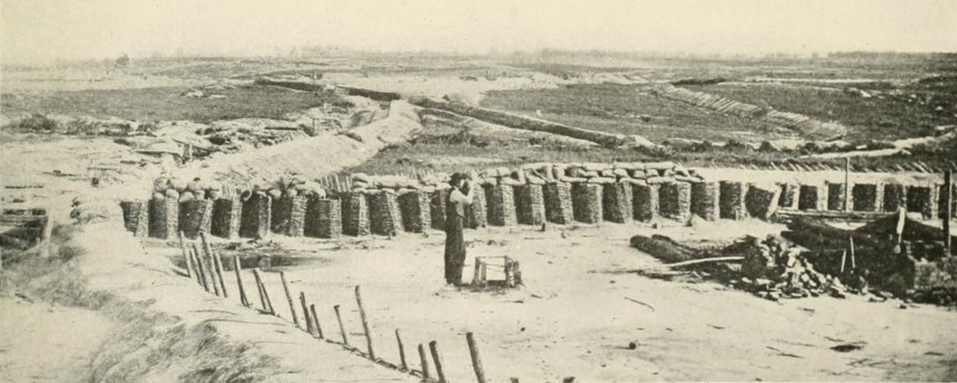 Confederate fortification line protecting Petersburg